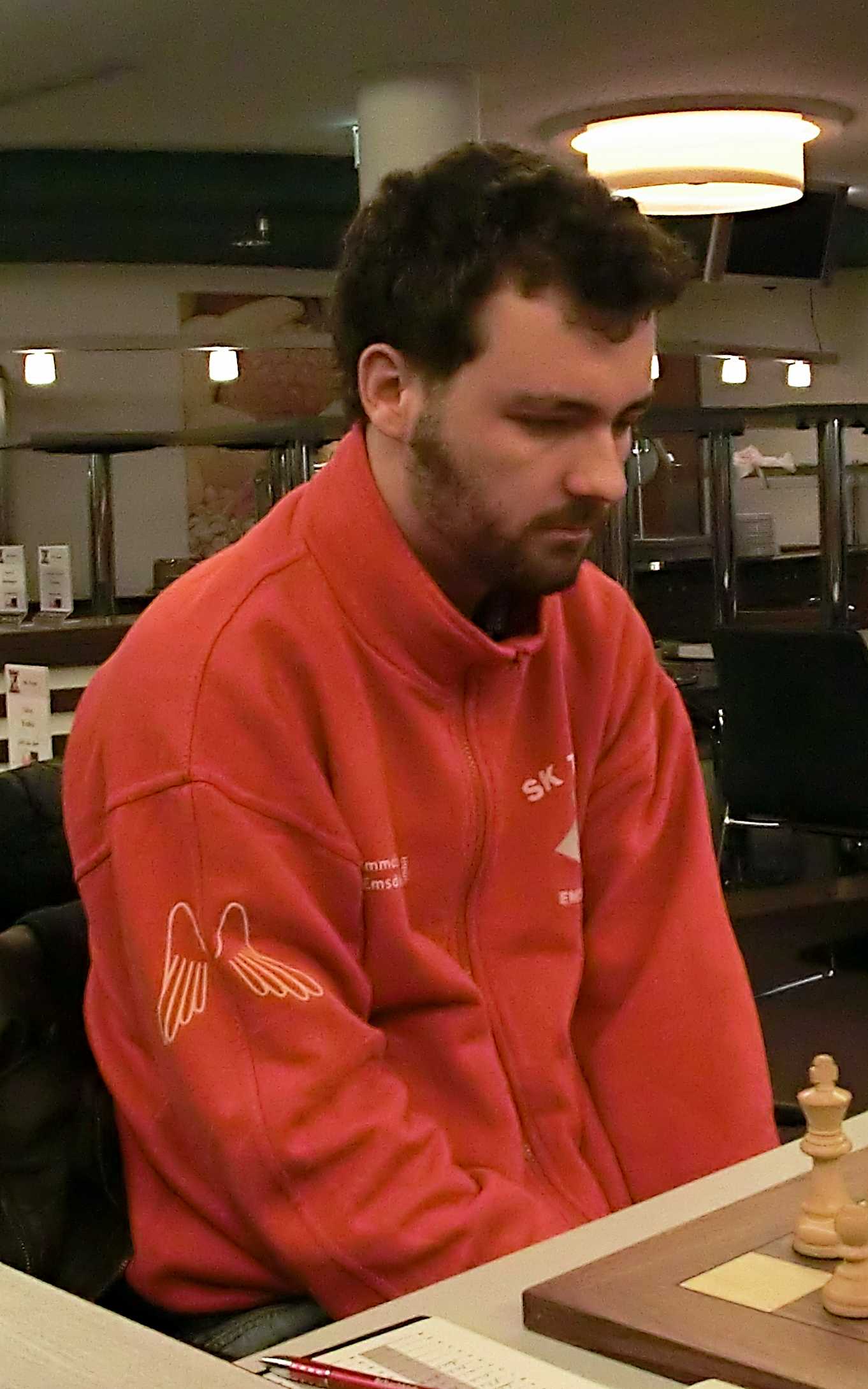 Roeland Pruijssers, chess grandmaster from the Netherlands